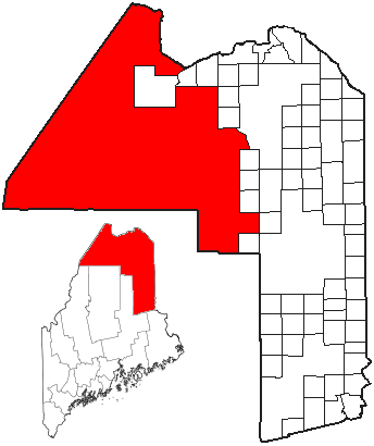 Adapted from U.S. Census Bureau maps (American FactFinder) and Wikipedia's ME county maps by Bumm13.